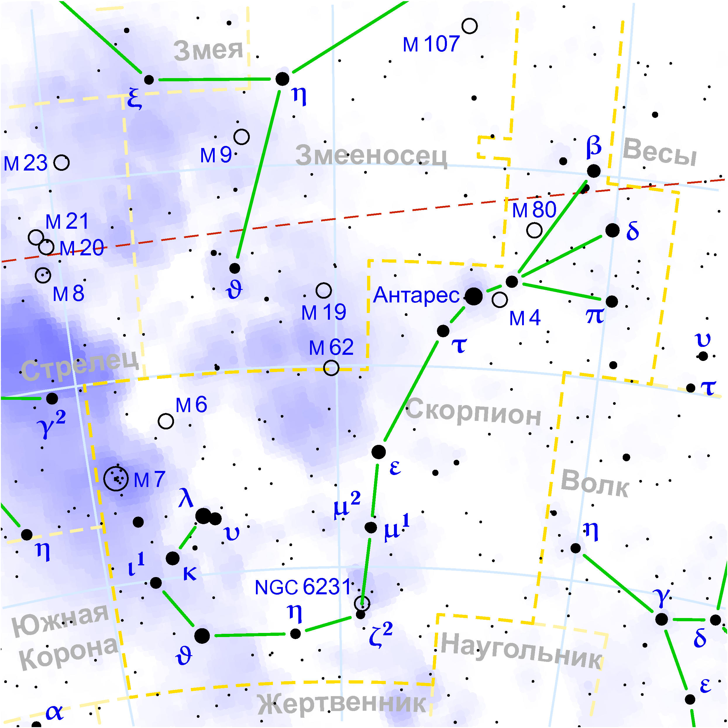 Scorpius constellation map in Russian